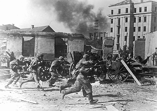 Troops of the Soviet 49th Army fighting in the streets of Mogilev